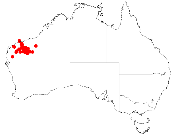 Scaevola acacioides Occurrence data downloaded from Australasian Virtual Herbarium on 12 May 2019